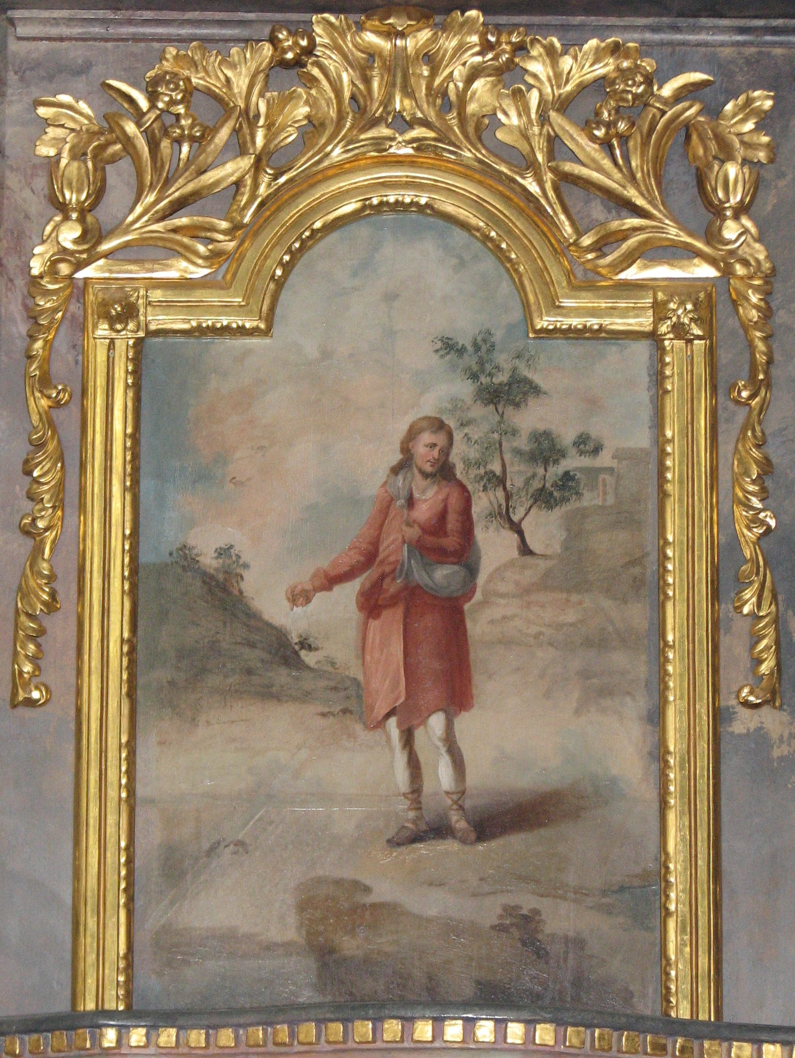 The photo depicts the Sowing the Seeds icon from the Greek Catholic Cathedral of Hajdúdorog, Hungary. It was painted on the end of the 18th century by unknown painter (most probably by Mihály Mankovics). The painting decorates the pulpit of the cathedral.